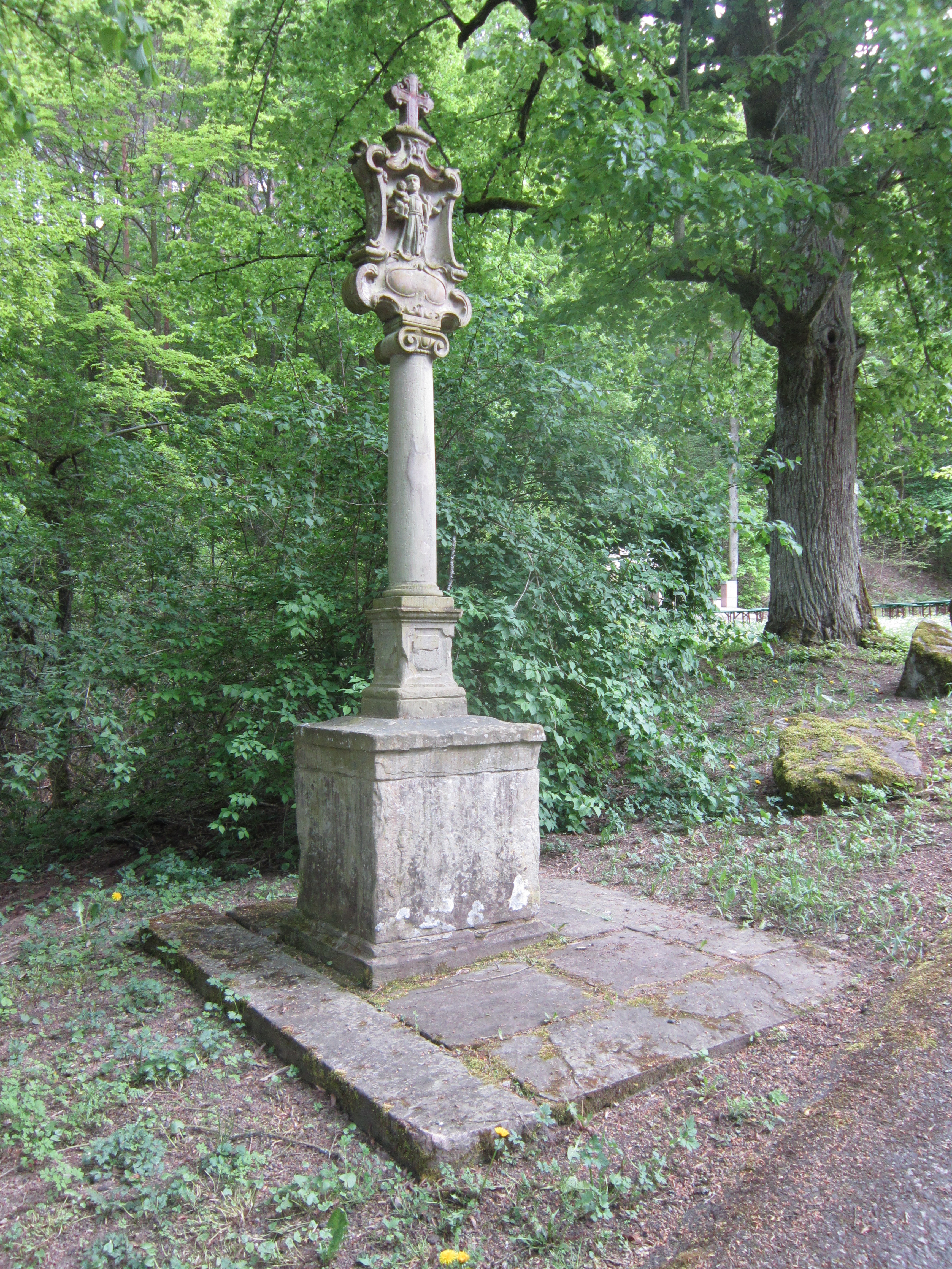 Way side shrine at the Maria Steinthal Chapel in the German town of Hammelburg in Lower Franconia (Bavaria).